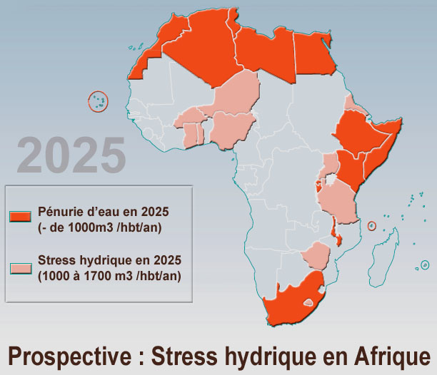 Foresight 2015: Water stress and water scarcity (25 countries) by United Nations (UN post GEO2000)